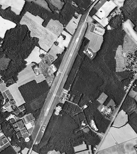 USGS digital orthophoto of Accomack County Airport in Virginia